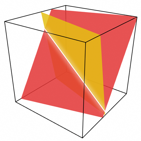 2 planes intersect along a linepart 2 of three illustrating secret sharing This version has added emphasis of the linecreated in Lightwave by stib